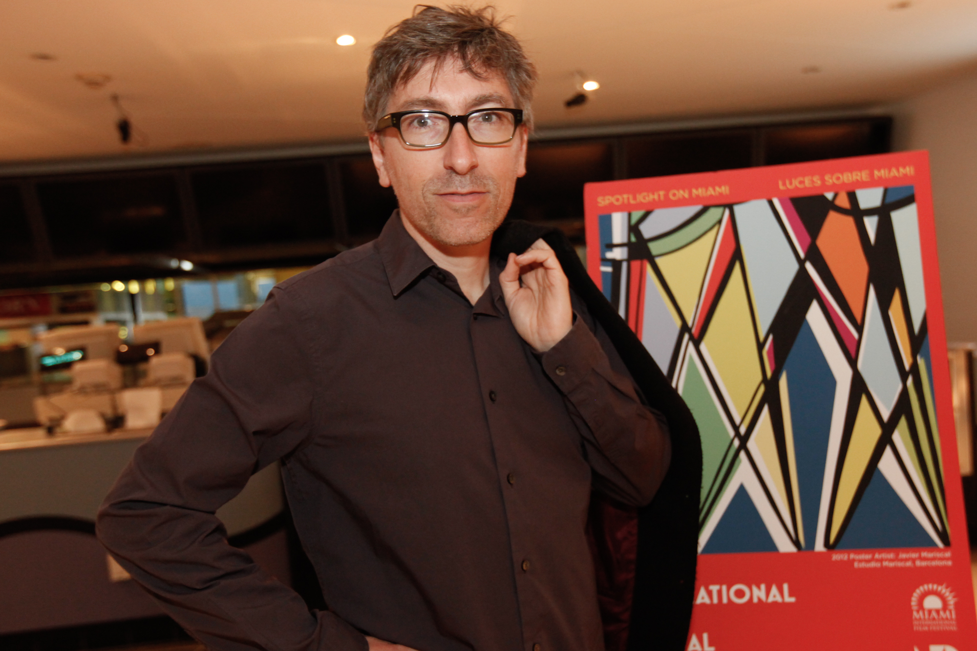 Director David Trueba at the 2012 Miami International Film Festival presentation of "Madrid, 1987" at Regal South Beach Cinemas